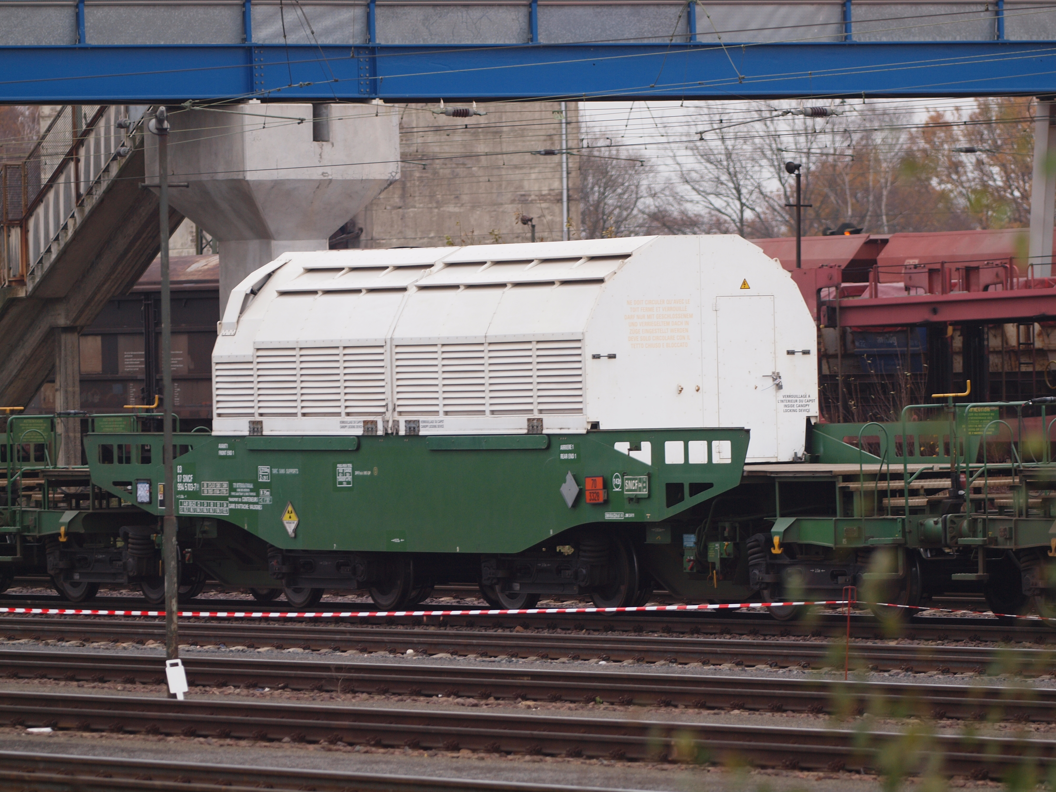 A CASTOR container filled with nuclear waste on a freight car, covered with a white hull. The freight car was part of the 2011 nuclear waste transport from La Hague, France to Gorleben, Germany. The picture was taken on a two hour stop in Seelze.